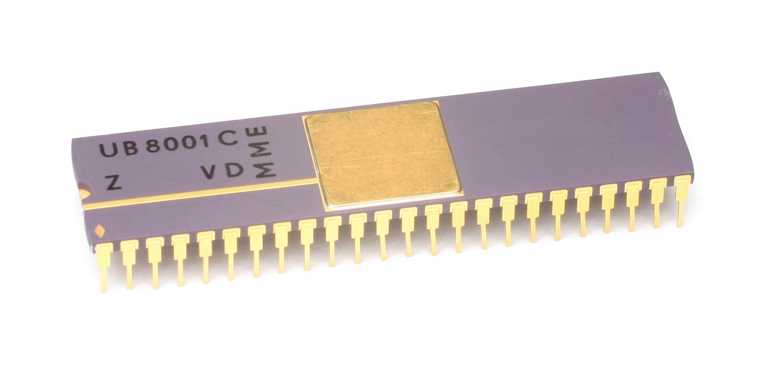 East German CPU MME UB8001C (= Zilog Z8001)